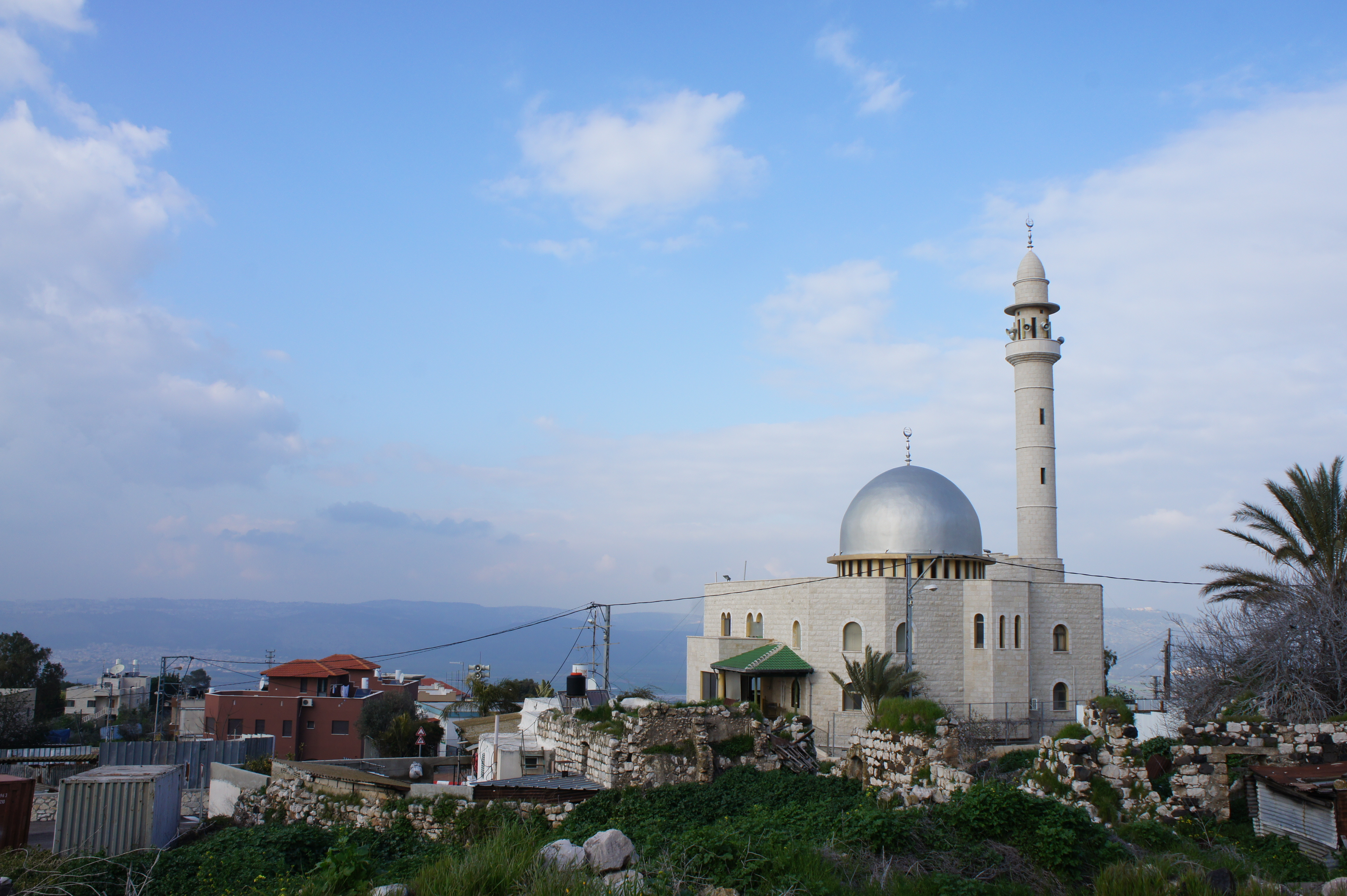 the mosque in ed Dahy, Galilee